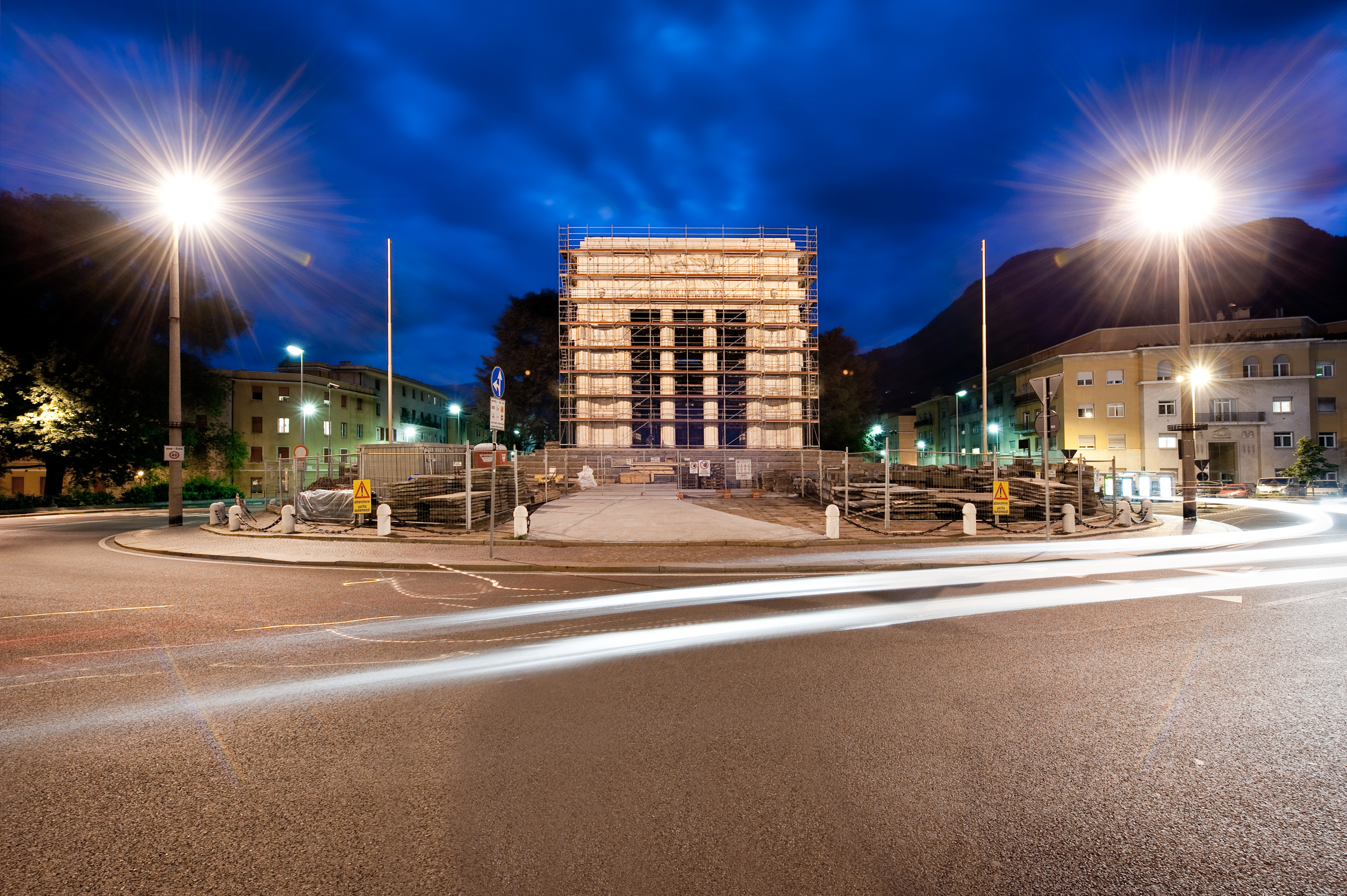 Victory Monument in Bolzano, South Tyrol, Italy